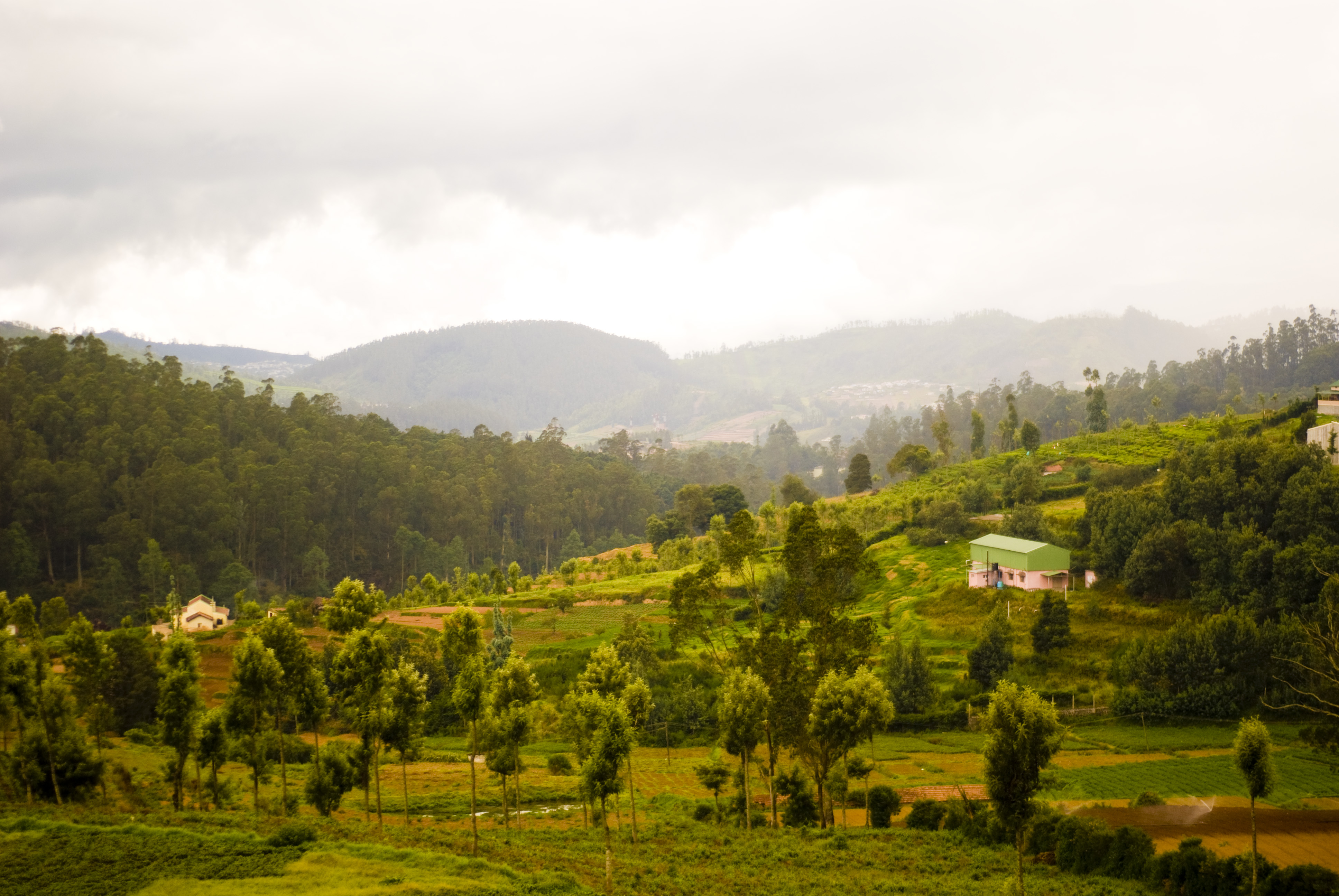 Nilgiri Hills in Tamil Nadu, India